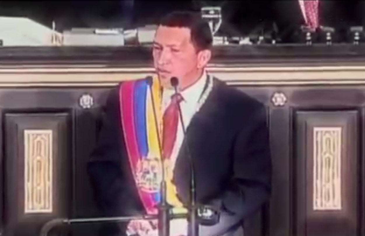 Hugo Chávez being sworn in as President of Venezuela in 1999.